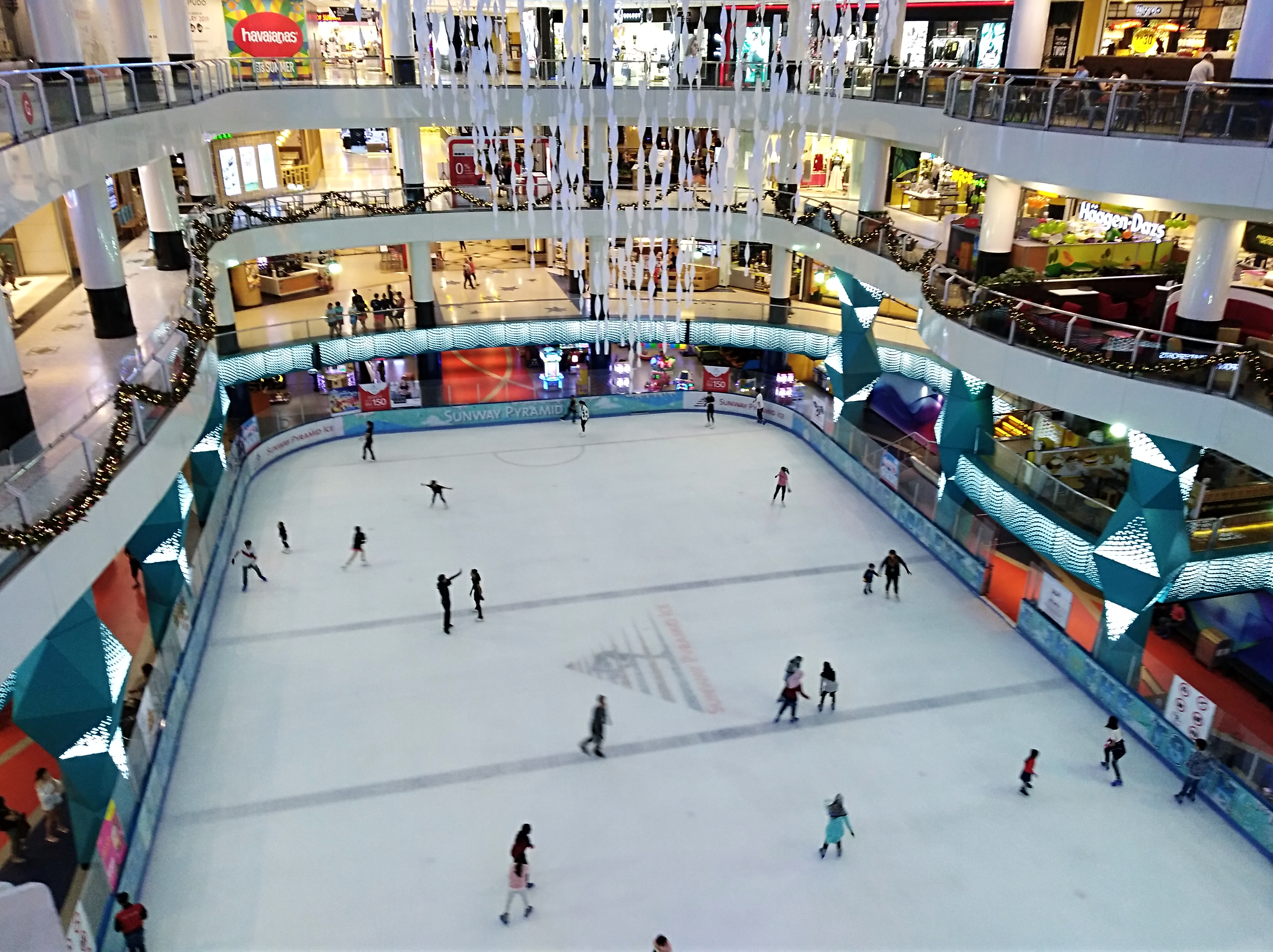 Just started the school holidays.